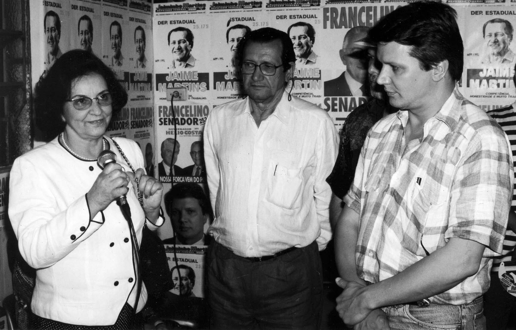 Maria de Lourdes Martins, Jaime Martins do Espirito Santos (Jaimão) e Jaime Martins Filho (Jaiminho Martins) em Divinópolis